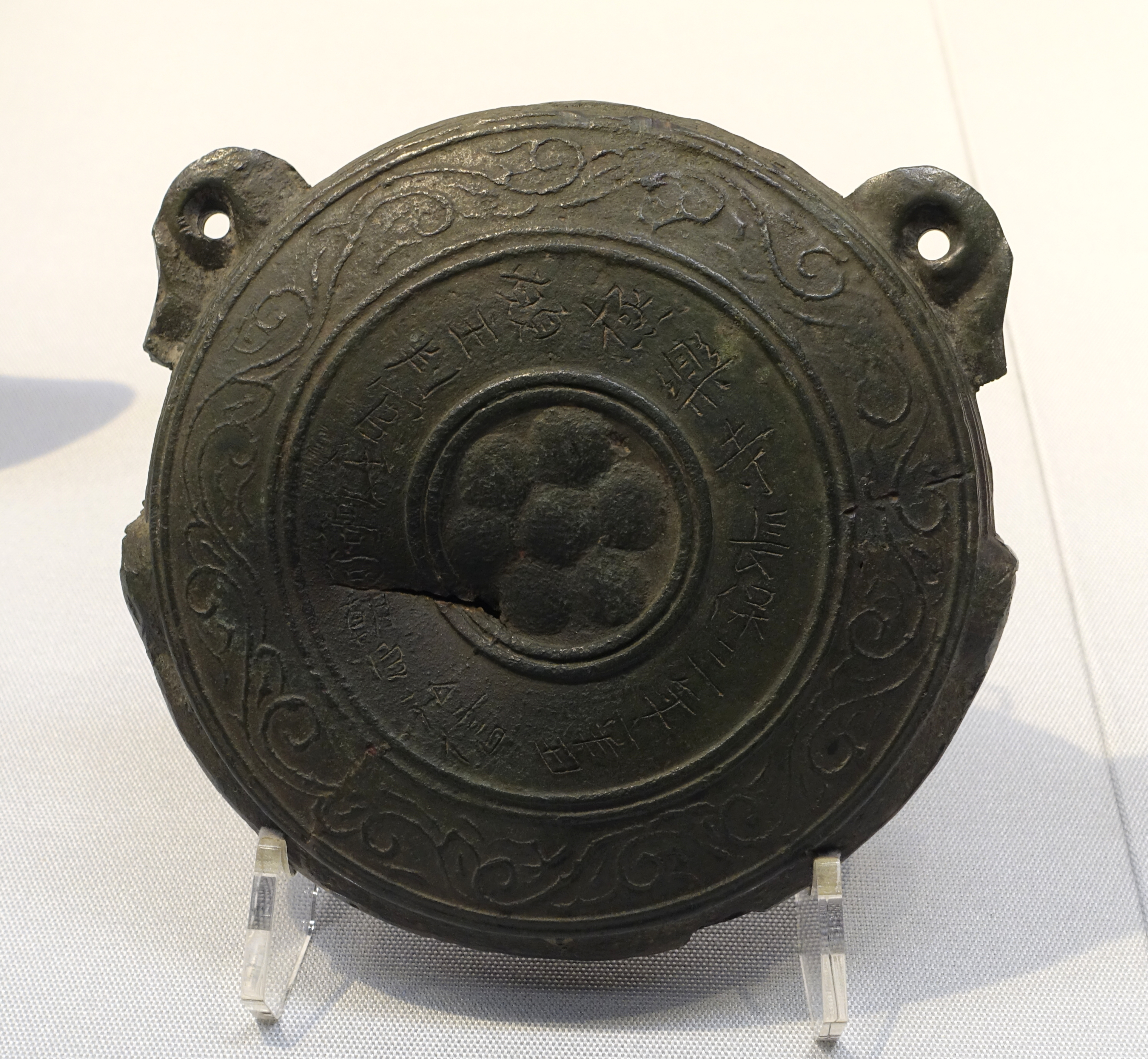 Exhibit in the Tokyo National Museum - Tokyo, Japan.